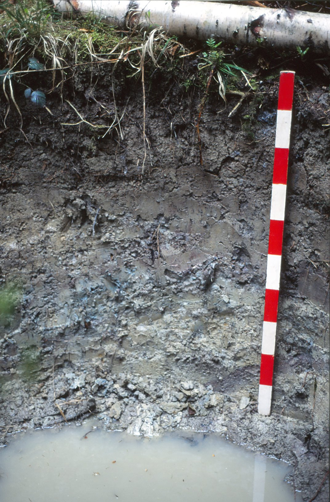 Stagnosol (pseudogley), Ah-Sw-Skw-Sd. On Late Triassic loess near Dossenbach, Southern Black Forest, Germany.